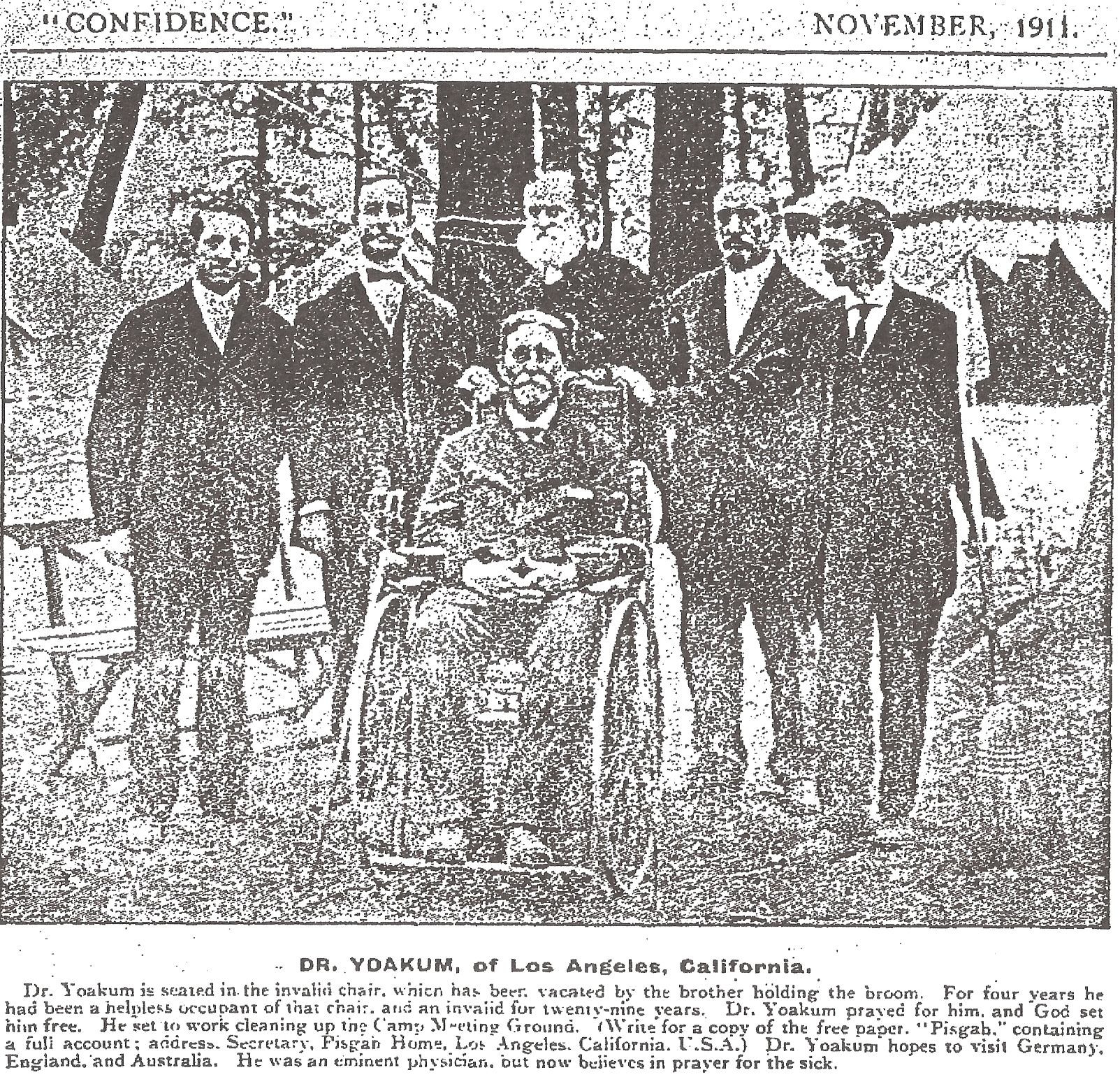 Photograph of Finis Yoakum